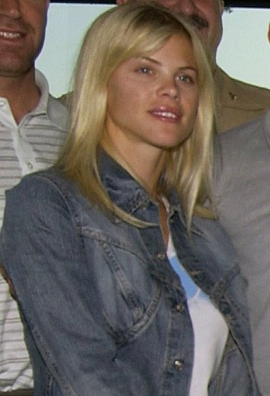 Swedish model Elin Nordegren, fiancee of American golfer Tiger Woods, touring the USS George Washington (CVN 73) in the Persian Gulf.